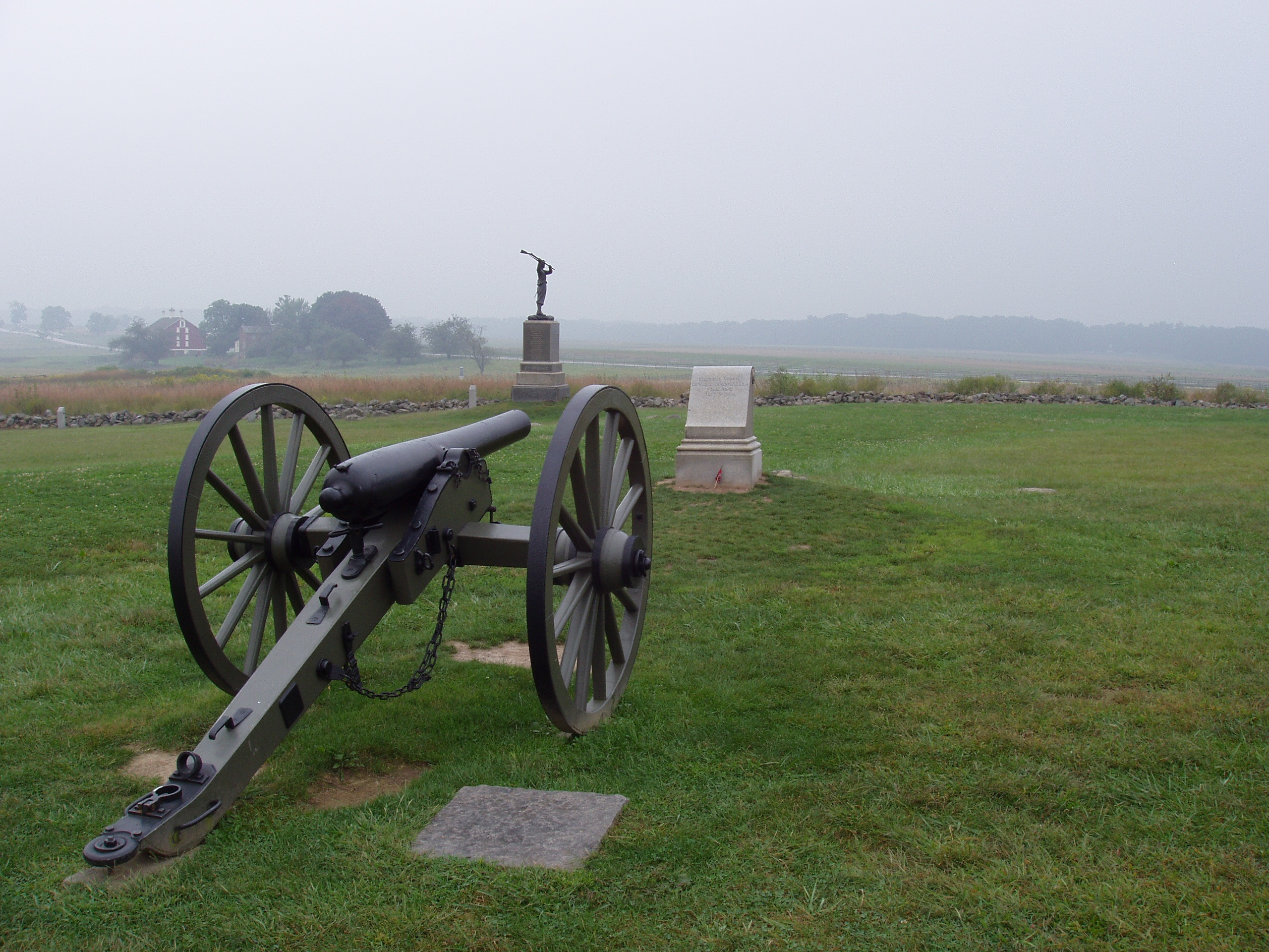 My trip to Gettysburg